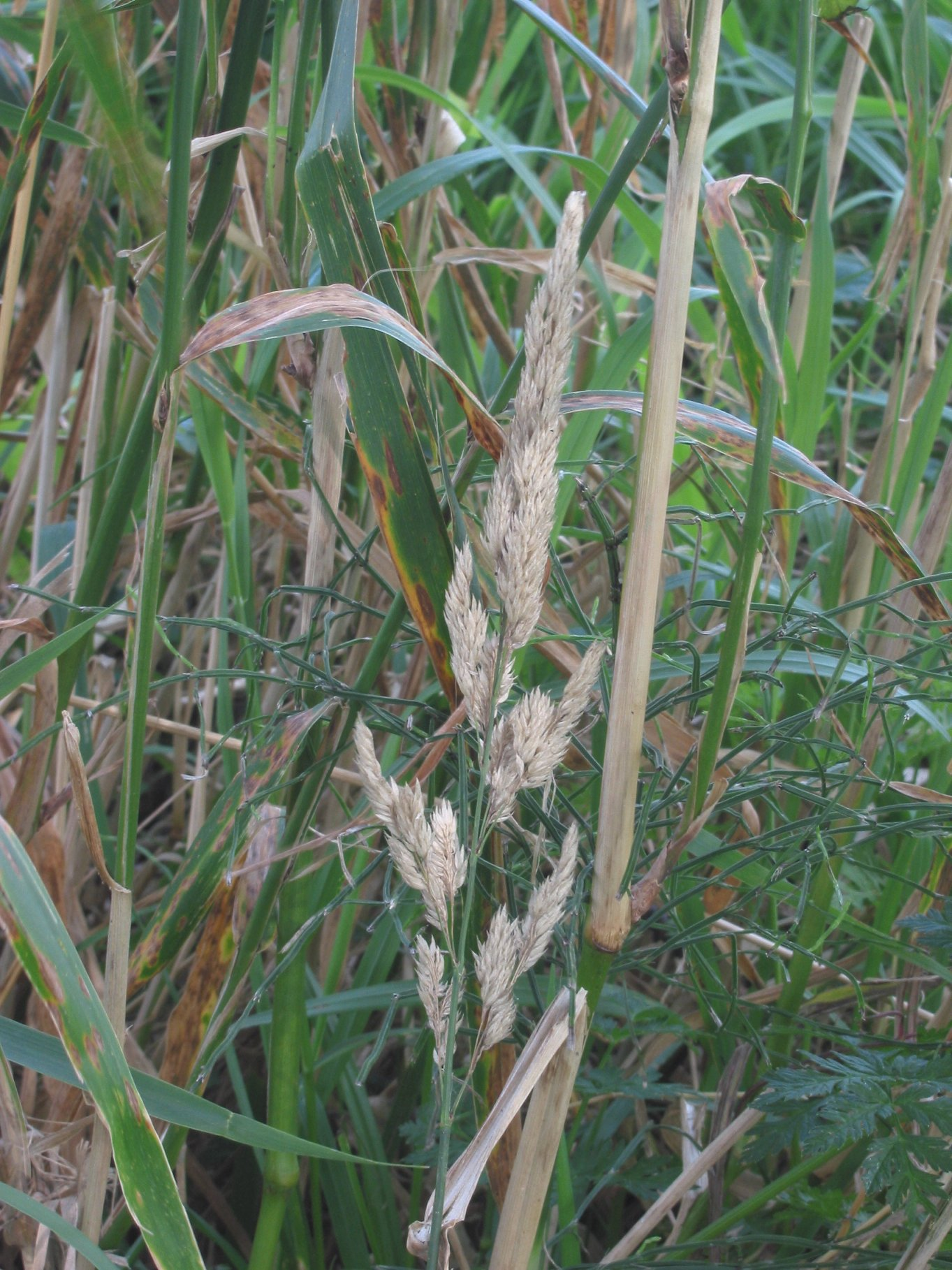 (nl: Rietgras bloeiwijze) Phalaris arundinacea florescence